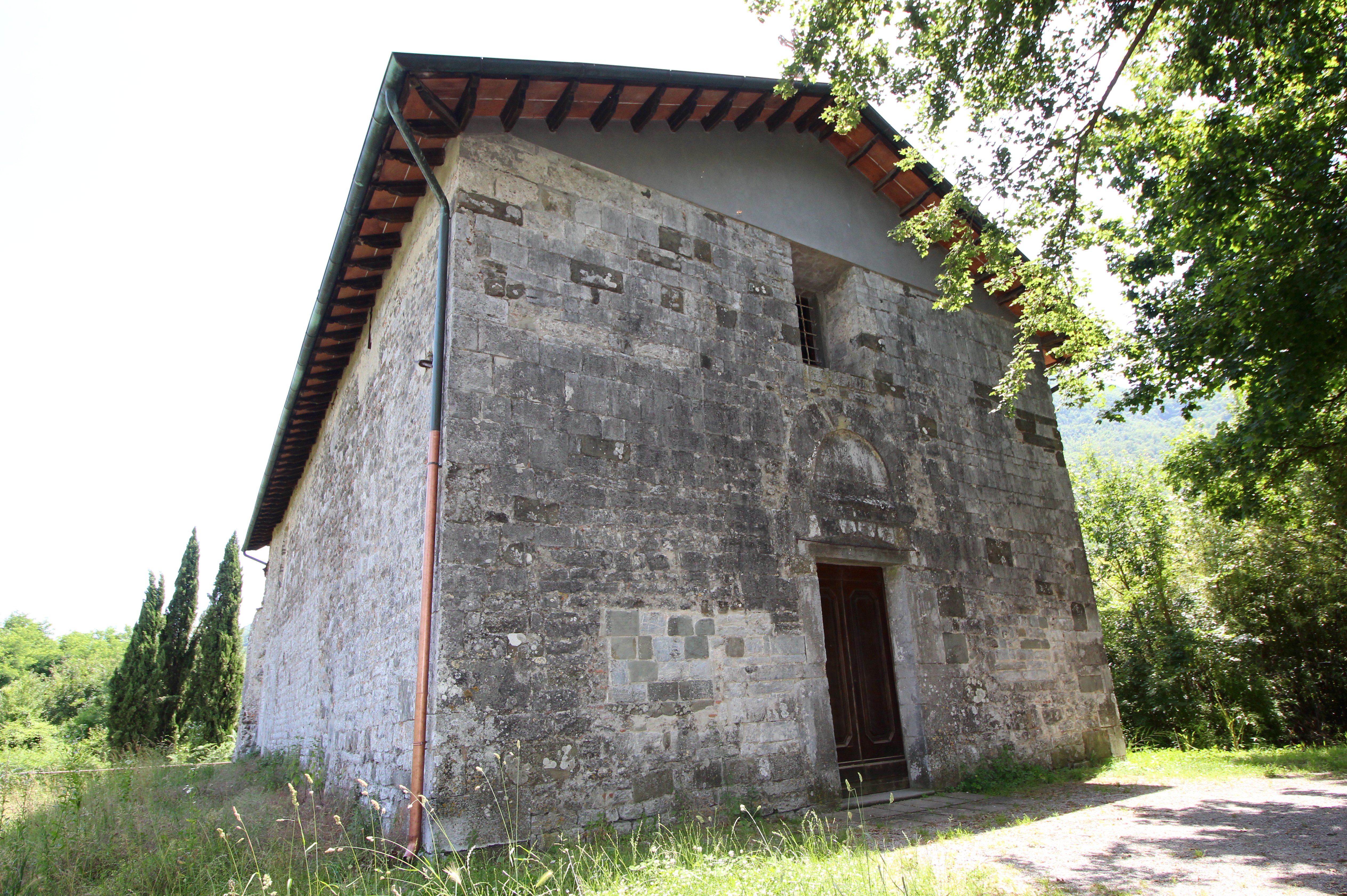 Church Santa Lucia, Gallicano, Garfagnana, Province of Lucca, Tuscany, Italy